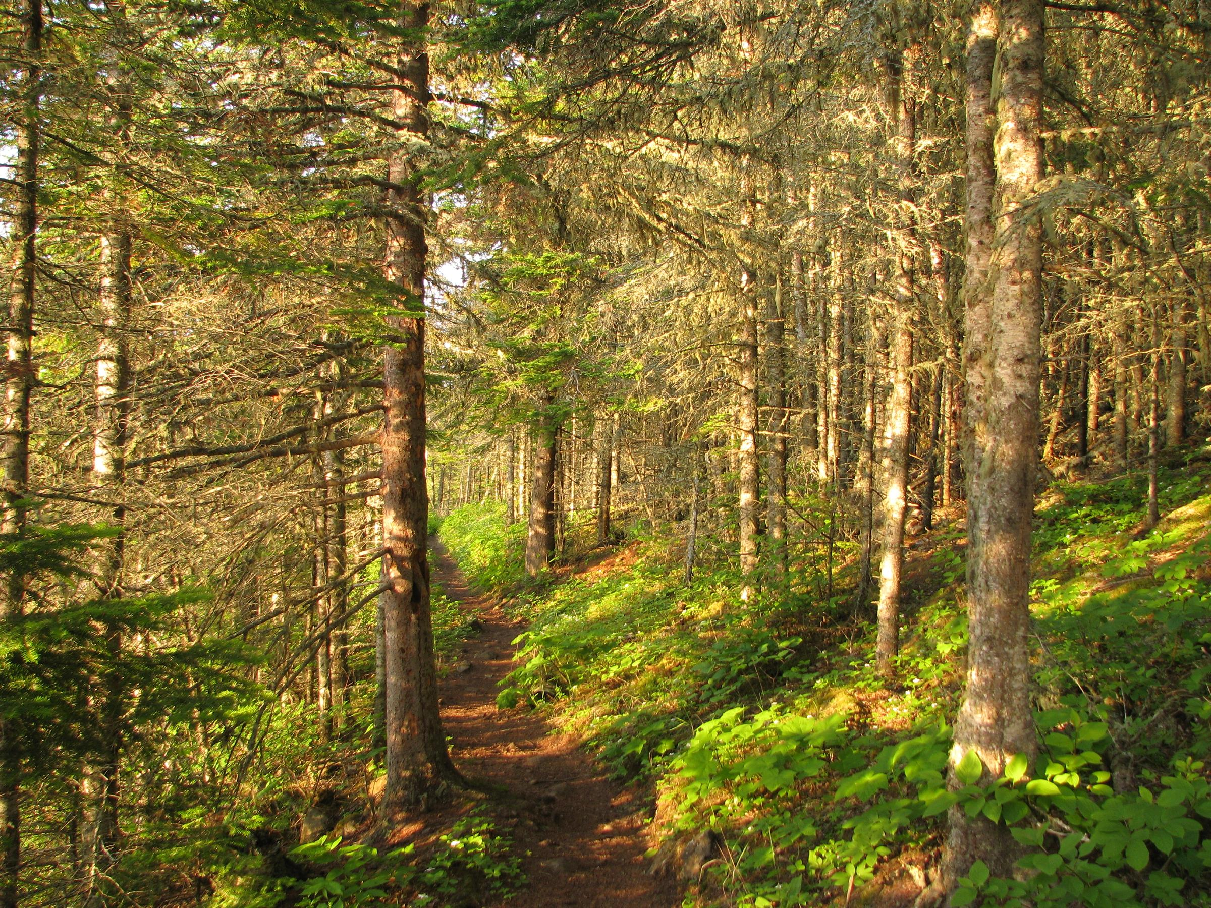 Tobin Trail — at Isle Royale National Park June 2010